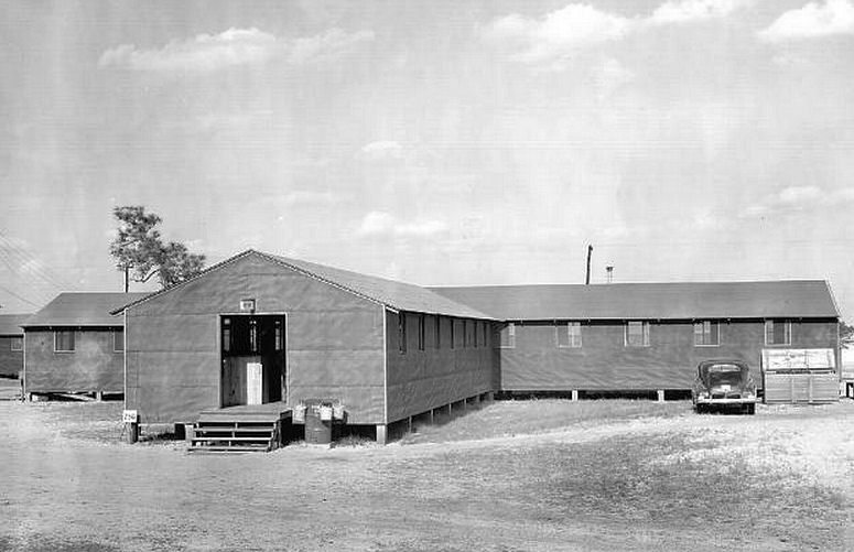 Buckingham Field Florida - Orderly Room - 1942